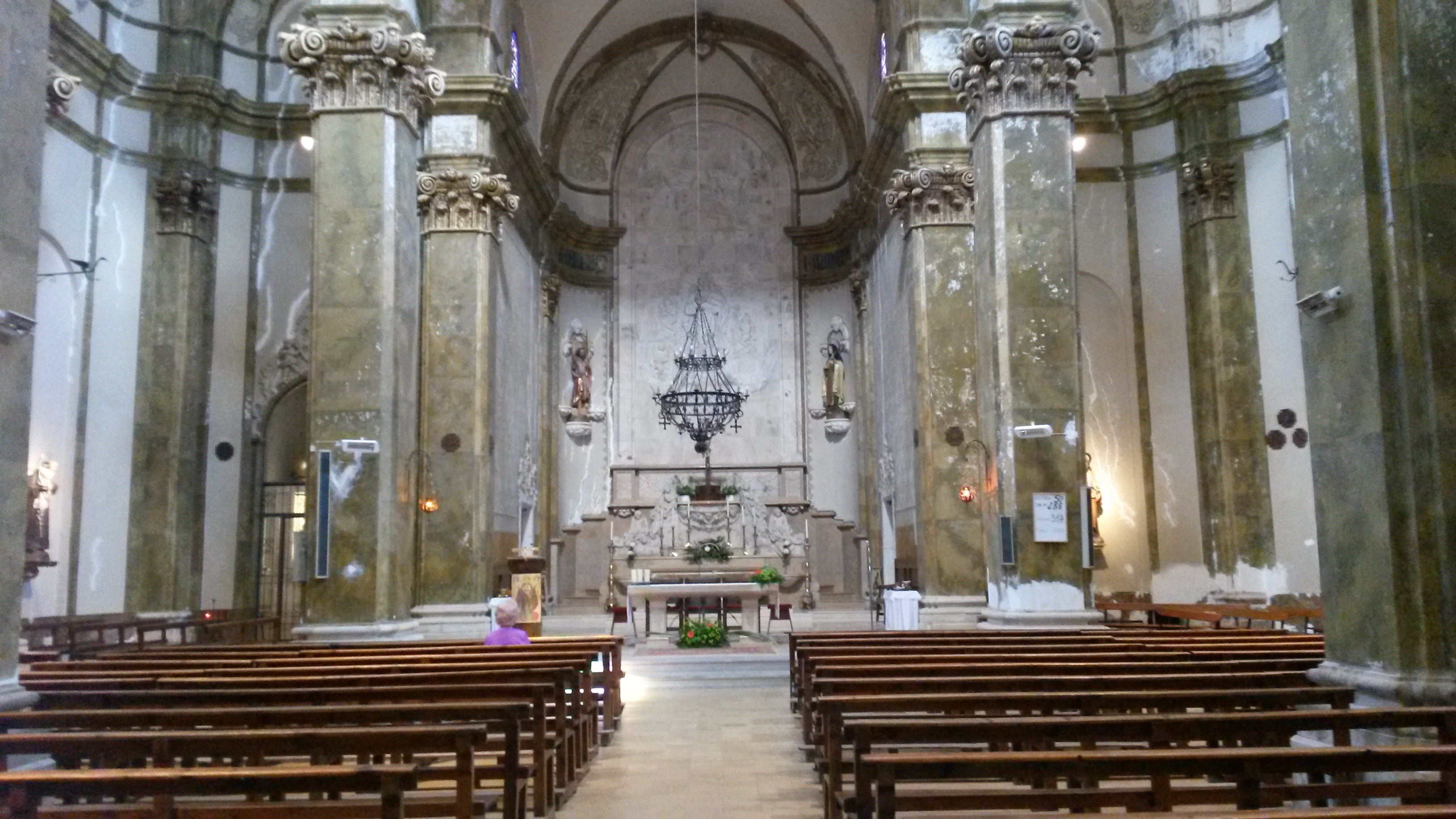 The church of Les Borges del Camp